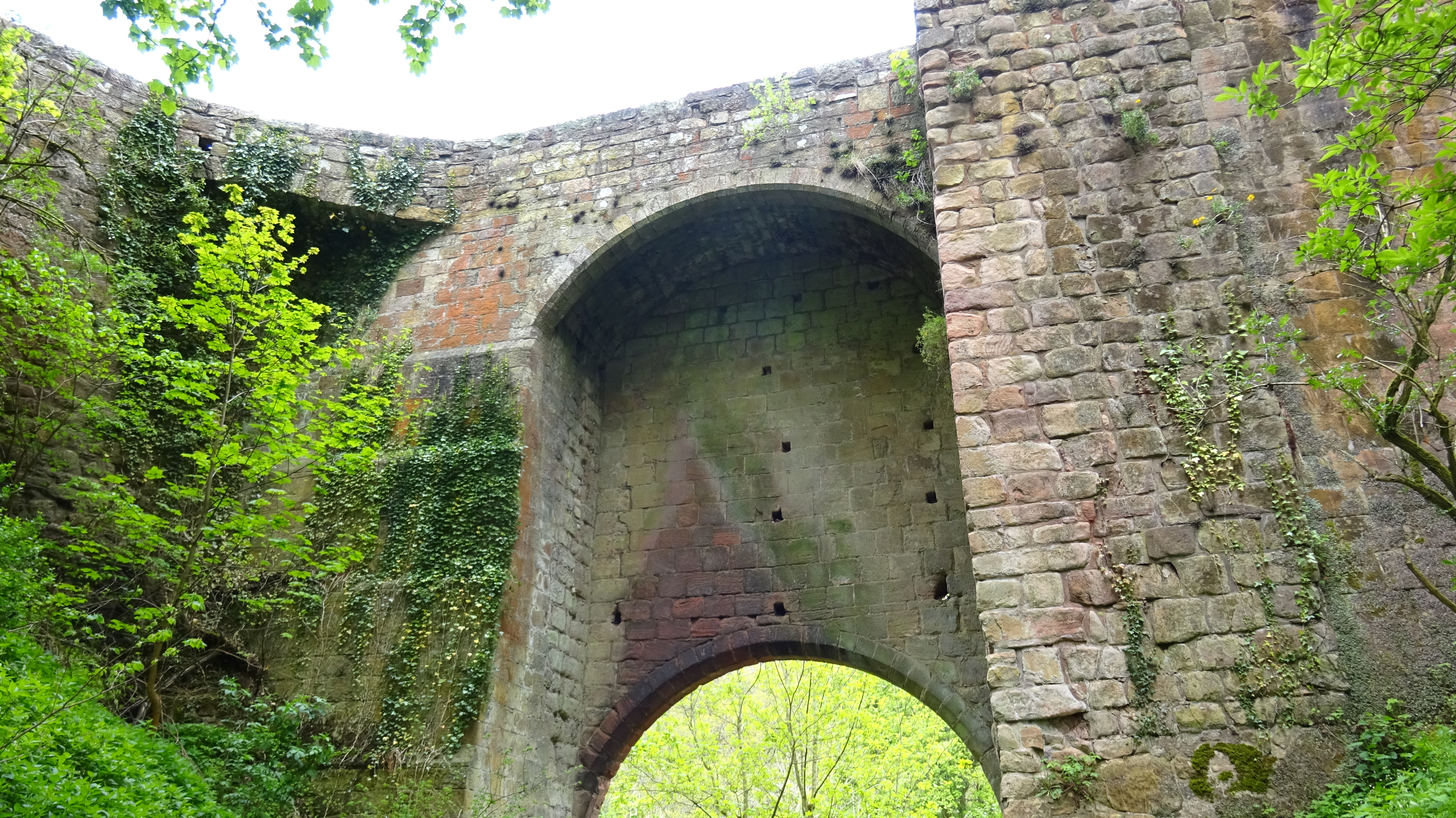 Rosslyn Castle, access bridge, Roslin, Midlothian, Scotland. This view is of interest to Robert Burns enthusiasts as he was sketched standing here by Alexander Nasmyth in 1786.